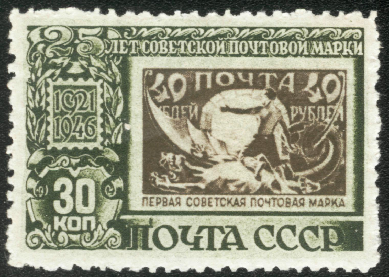 Soviet postage stamp of 30 kopeks. 25 anniversary of soviet post stamp (1921-1946).